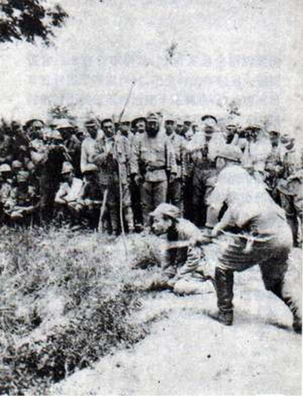 Photo of The "Shame" Album, showing the atrocities committed by the Japanese in Nanjing Massacre. It was one of the 16 photos preserved by a Chinese working in a photostudio at that time.